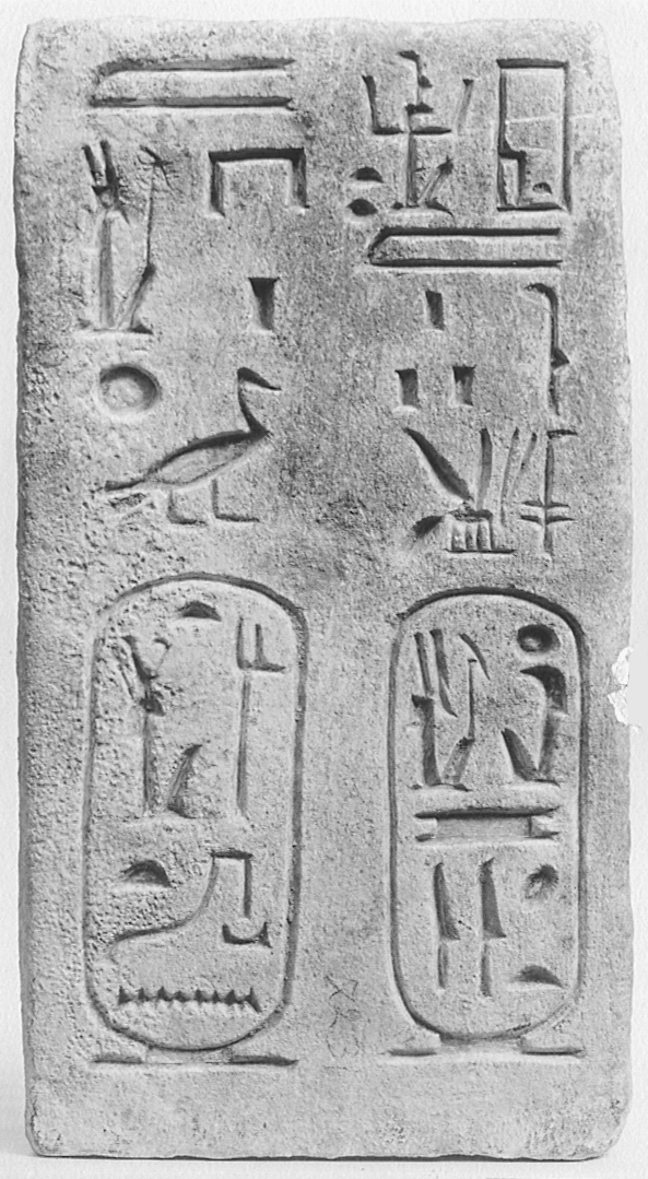 Brick, foundation deposit, Tawosret